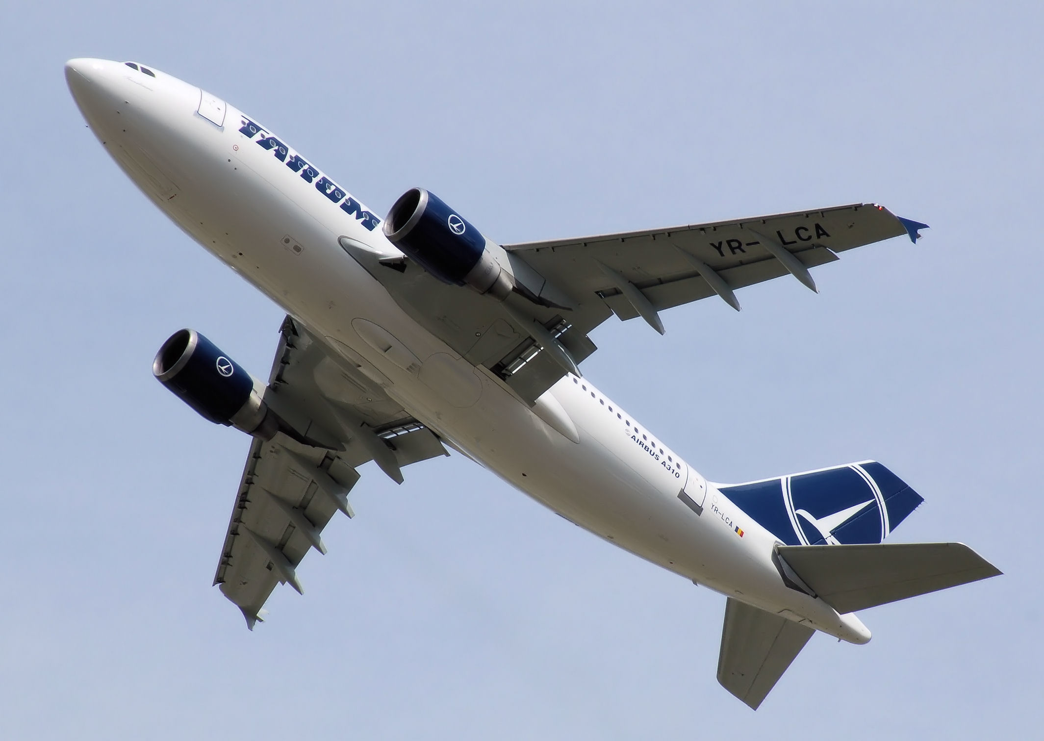 Tarom Airbus A310-300 (YR-LCA) taking off from London Heathrow Airport.